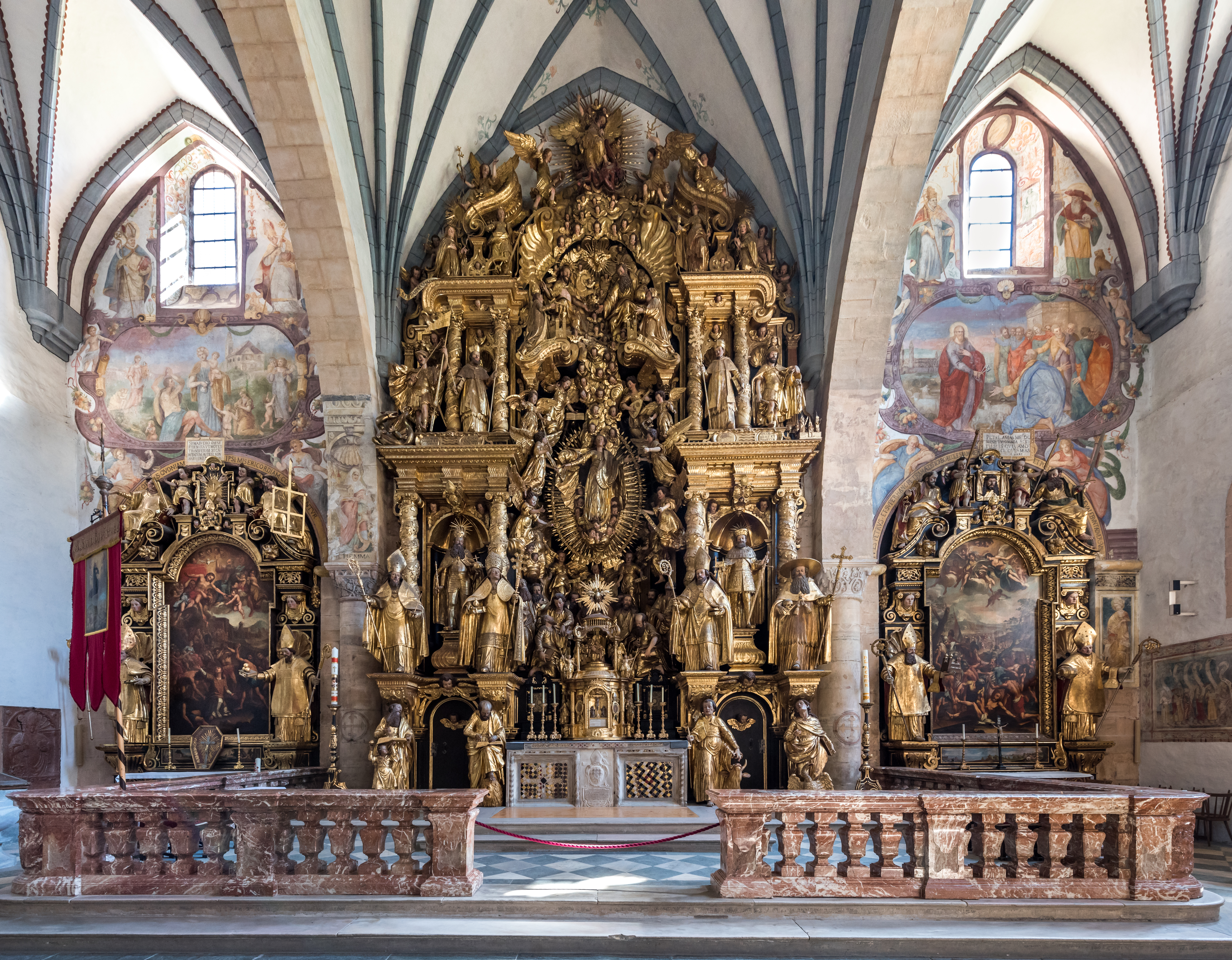 Main and side altars at the cathedral's transept on Domplatz #1, market town Gurk, district Sankt Veit, Carinthia, Austria, EU